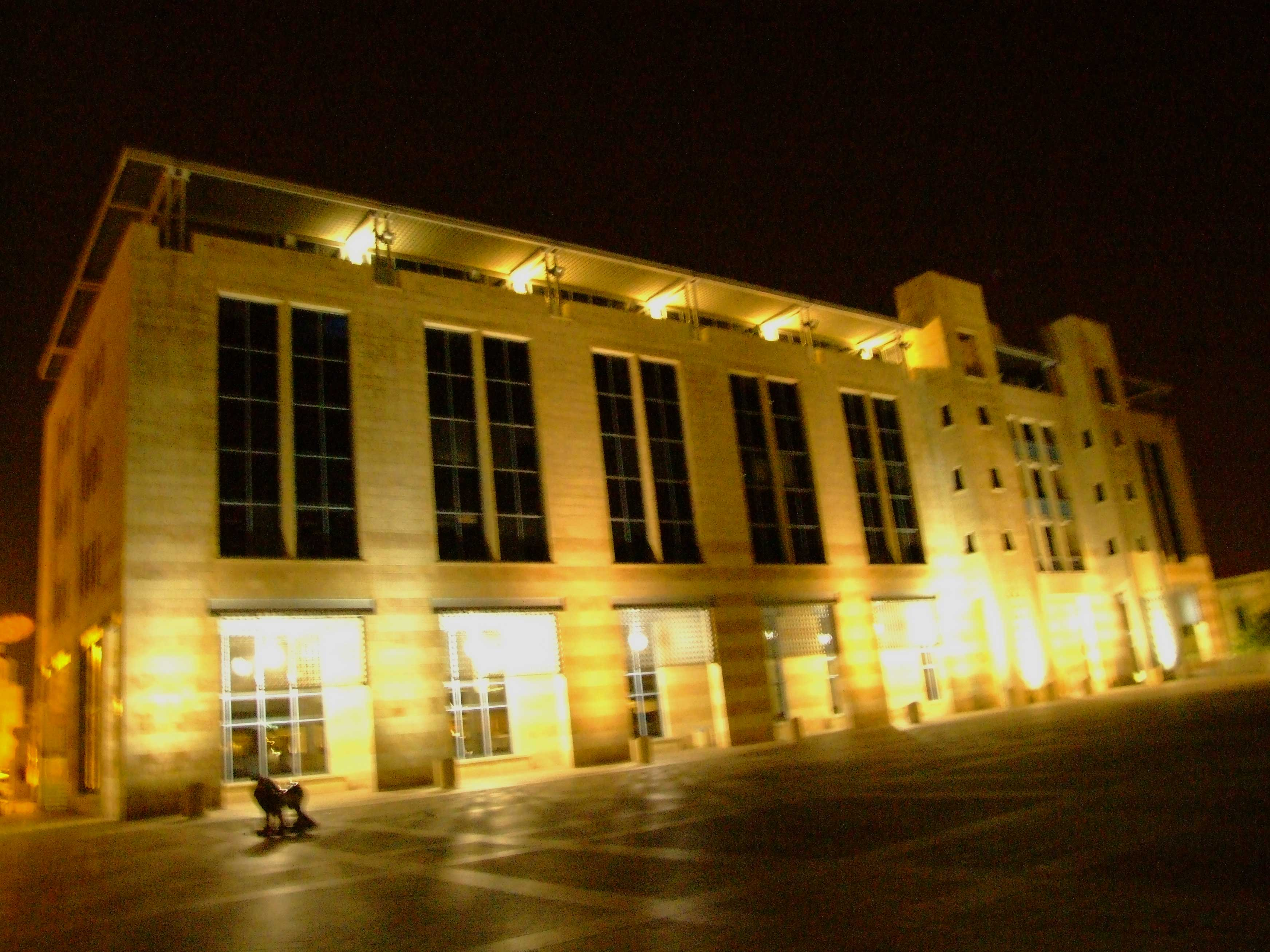 my photo from Safra Square in the center of Jerusalem, Israel.